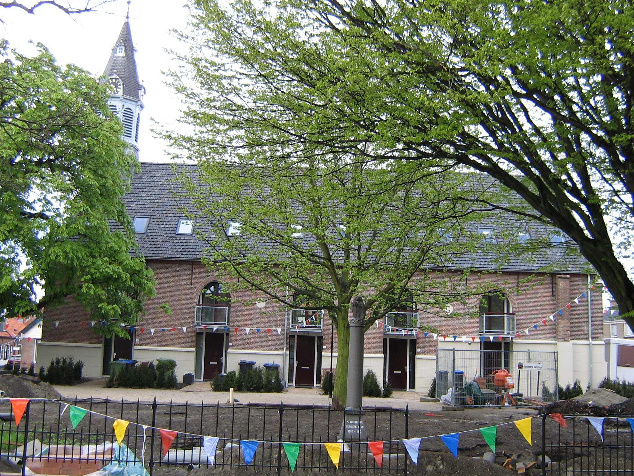 Church adapted for habitation, Nieuwdorp, Borsele community, Netherlands